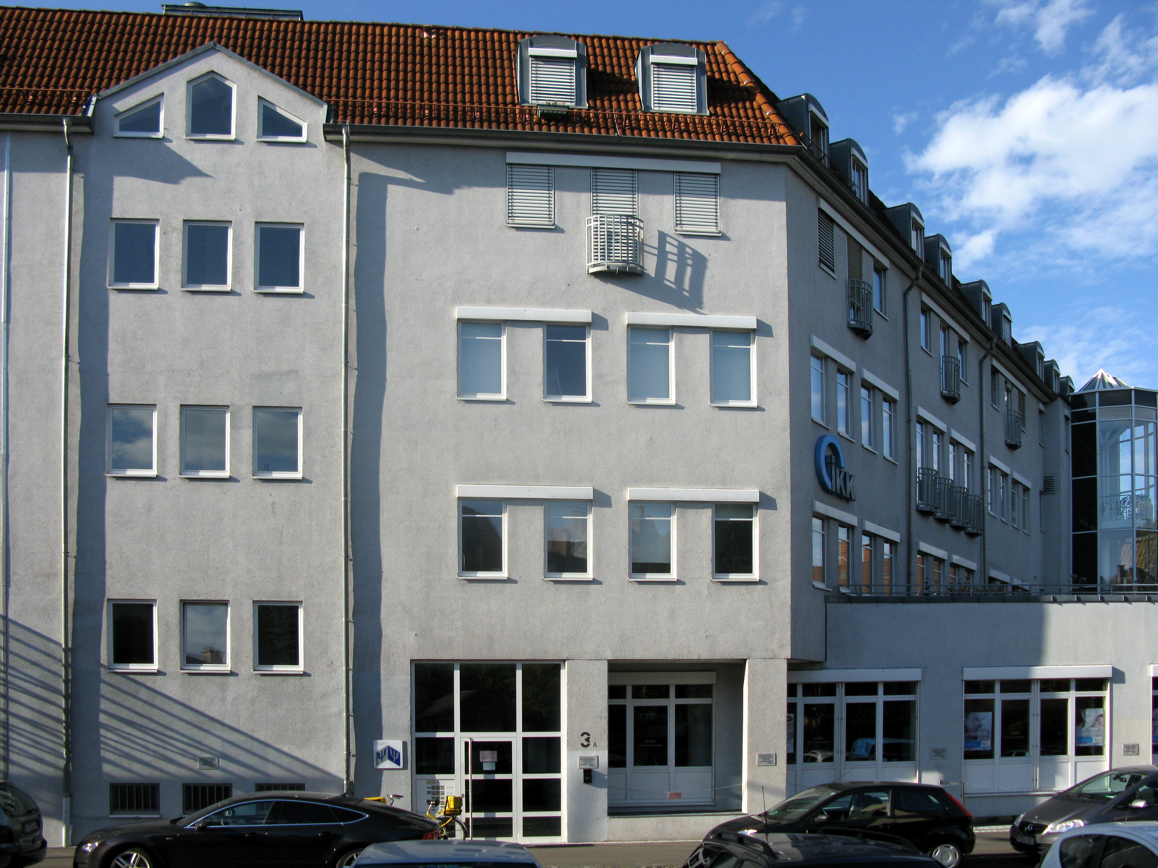 IGPP in the Wilhelmstrasse 3a in Freiburg